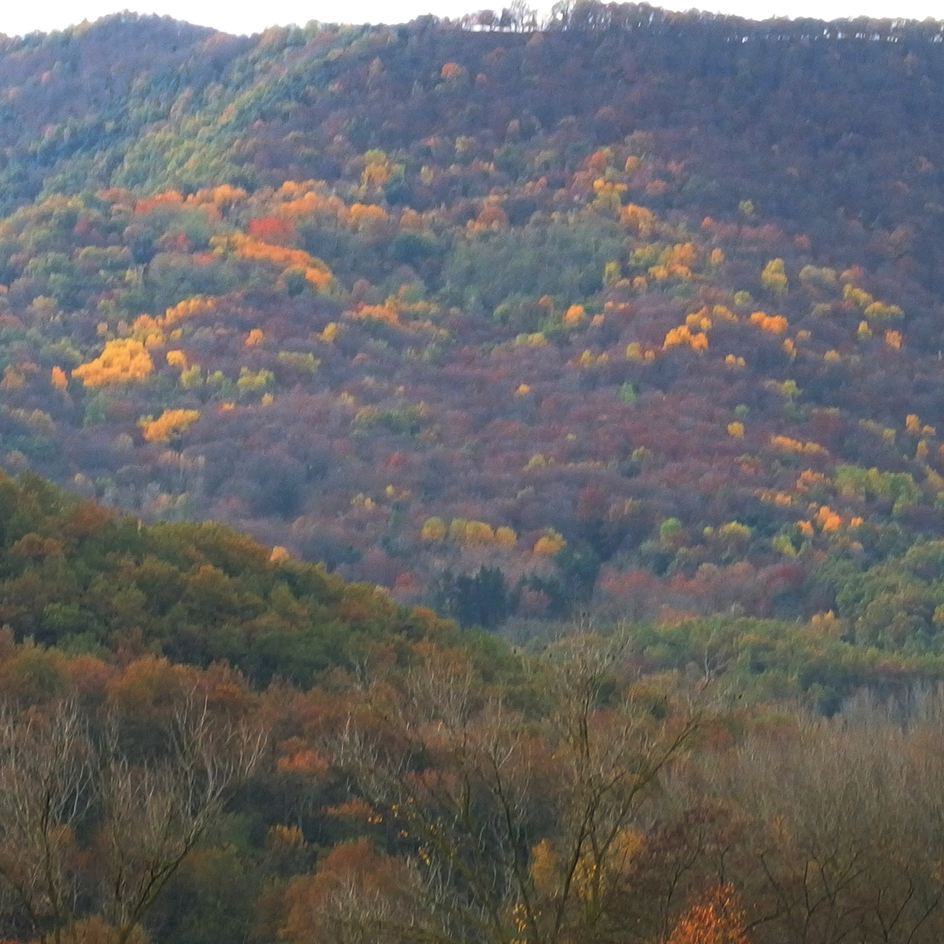 Serra de Finestres, vista des de Sata Pau